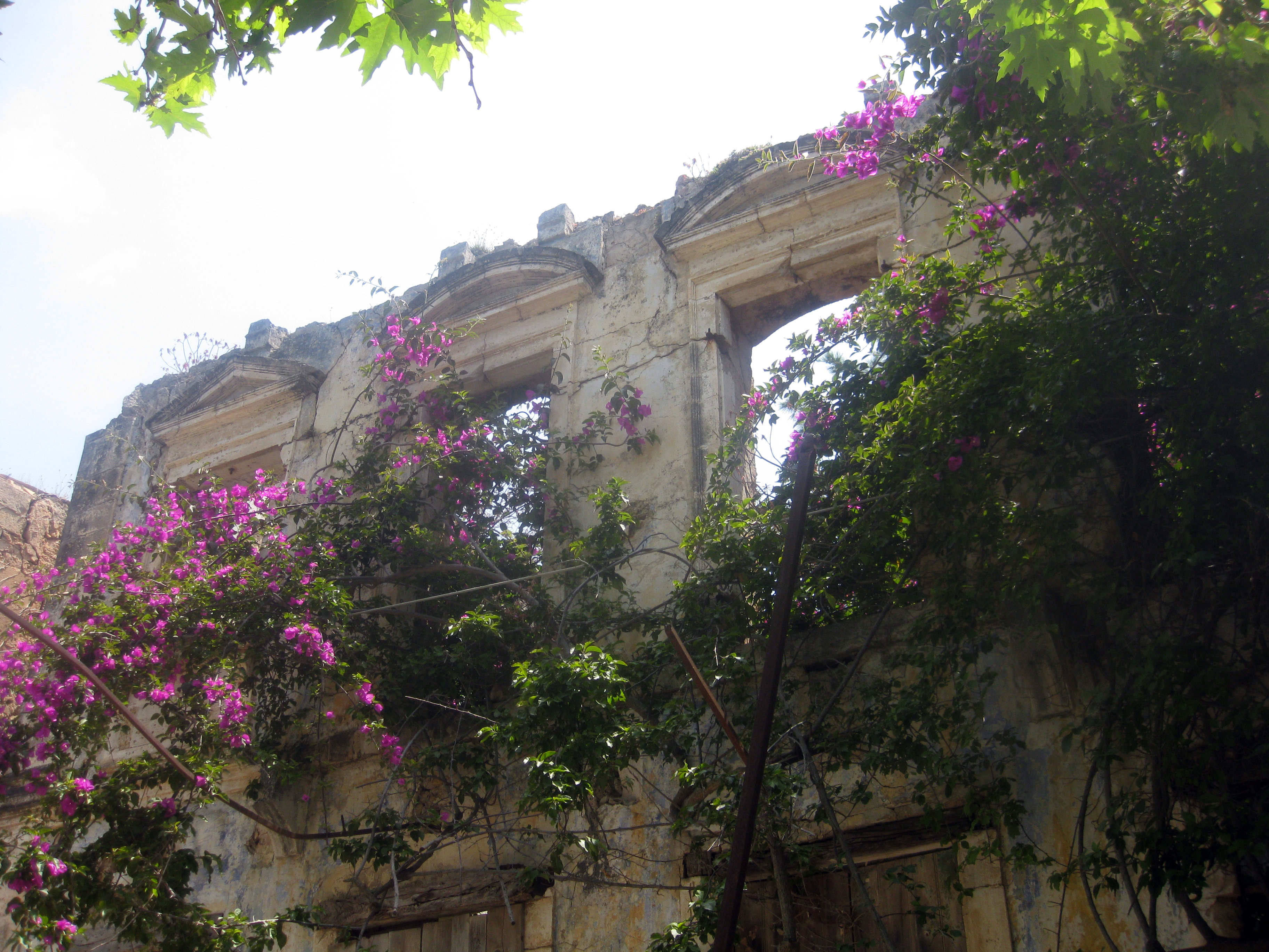 House destroyed in the earthquake 1953, Assos, Kefalonia